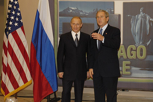 SANTIAGO, CHILE. Meeting with President of the United States George W. Bush.